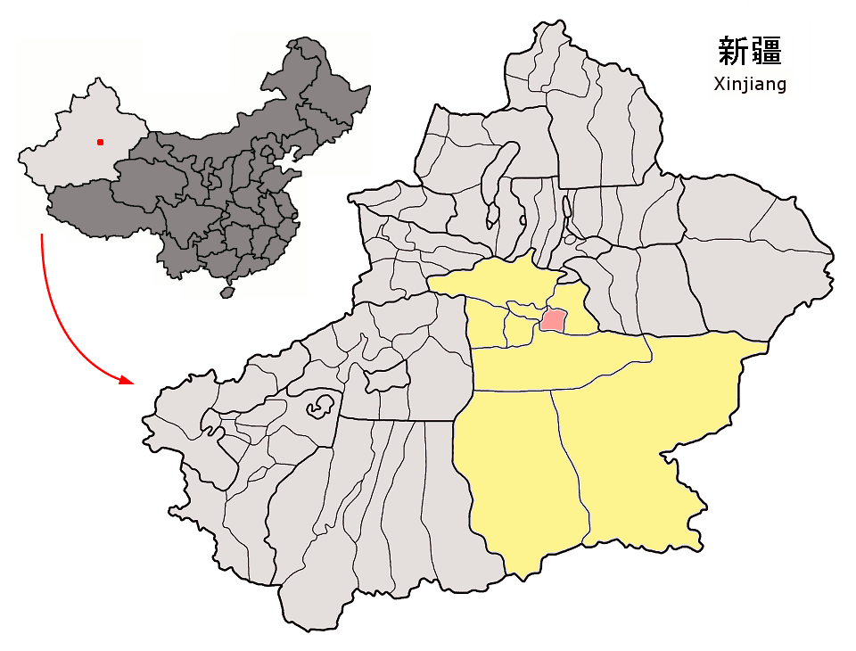 Location of Bohu County (pink) and Bayin'gholin Prefecture (yellow) within Xinjiang autonomous region of China Map drawn in september 2007 using various sources, mainly : Xinjiang Uygur autonomous region administrative regions GIS data: 1:1M, County level, 1990 Xinjiang Counties map from